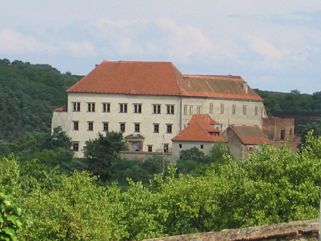 The castle in Dolní Kounice - view from the Jewish cemetery.